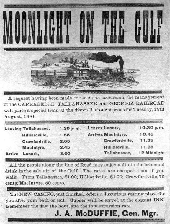 Local call number: Rc07203 Title: [Carrabelle, Tallahassee & Georgia Railroad advertisement posting schedule] [graphic] Publication info: 1894. Physical descrip: 1 photoprint b&w 10 x 8 in. Series Title: (Reference collection)